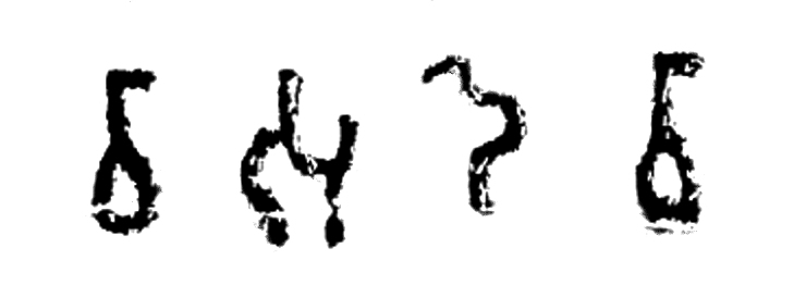 Vasudeva in the Ghosundi Fragment A inscription